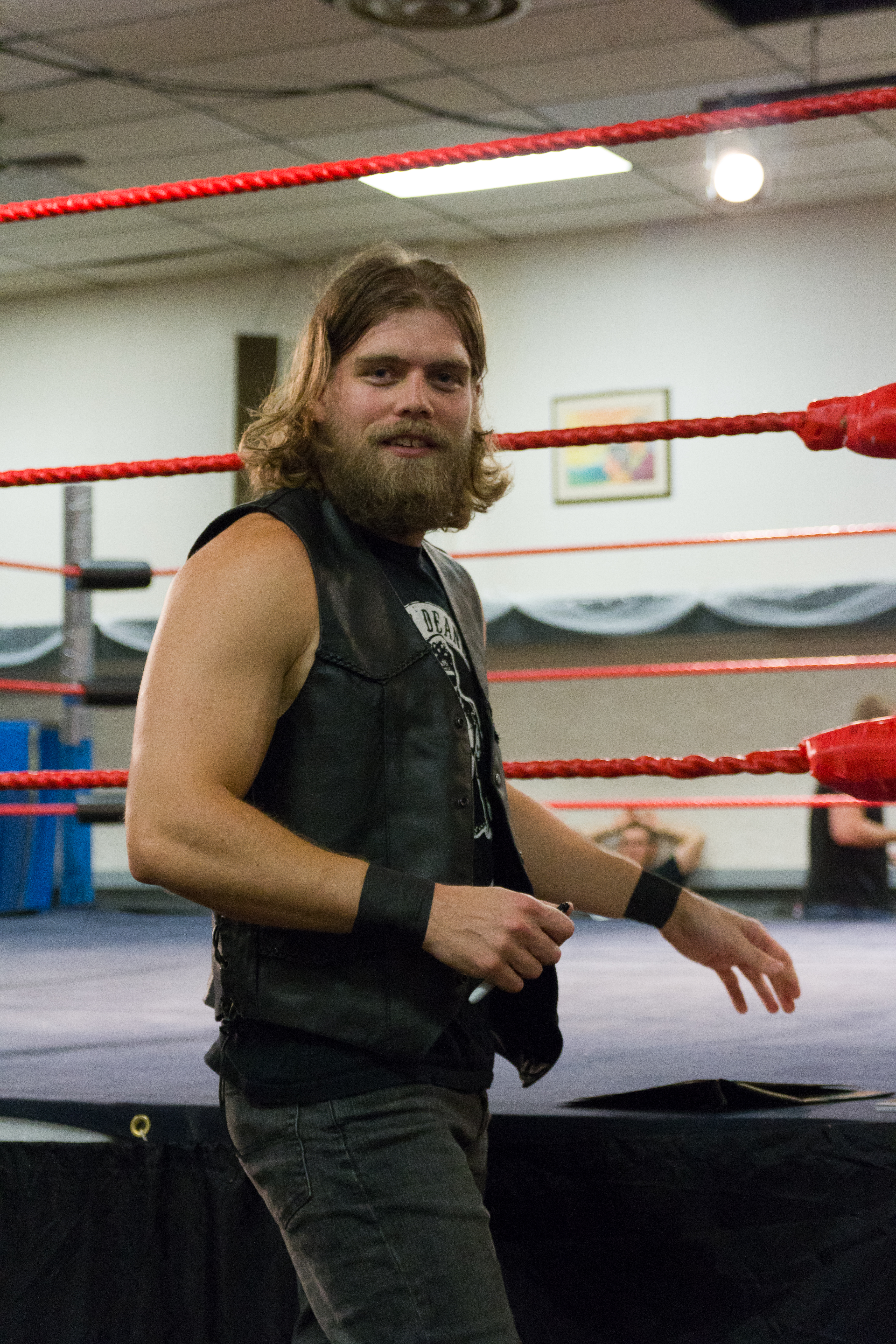 Cody Deener at a TCW show in Kitchener